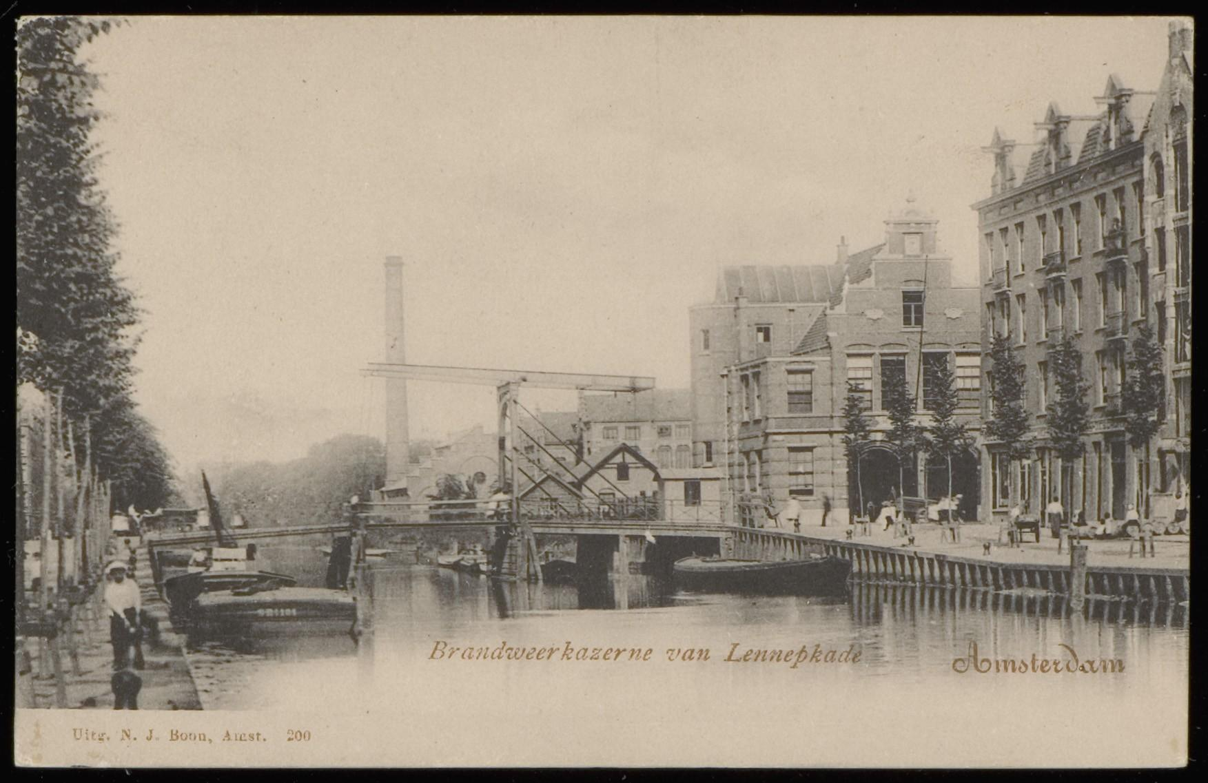 Beschrijving Jacob van Lennepkade, klapbrug en brandweerkazerne op de cruising Nicolaas Beetsstraat. Uitgave N.J. Boon, Amsterdam Documenttype prentbriefkaart Vervaardiger Boon, N.J. (uitgever) Collectie Collectie Stadsarchief Amsterdam: prentbriefkaarten Datering 1900 ca. Geografische naam Jacob van Lennepkade Inventarissen Afbeeldingsbestand PBKD00018000003